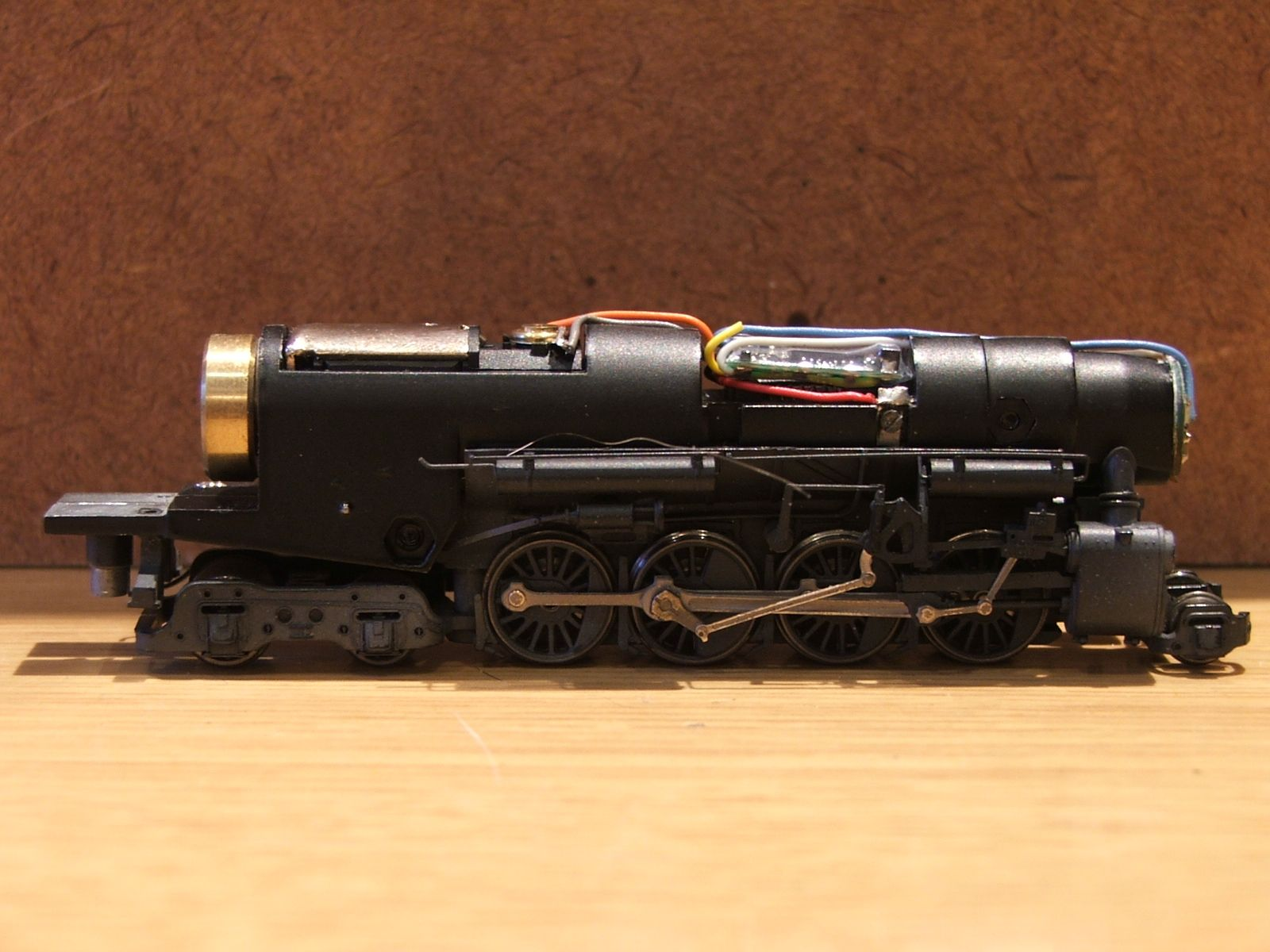 A DCC decoder installed in an N scale LifeLike Berkshire Steam Locomotive